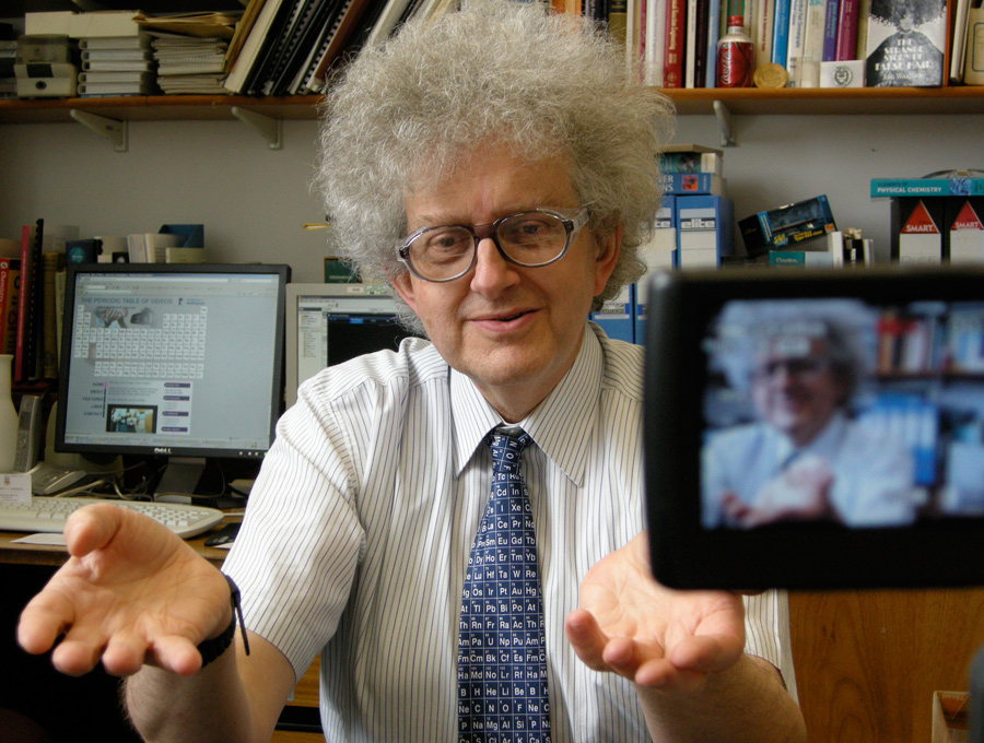 Chemist Professor Martyn Poliakoff, from the University of Nottingham, is filmed in his office for The Periodic Table of Videos project.